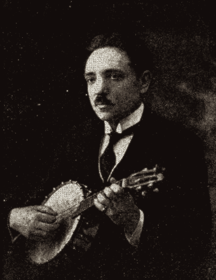 Portrait of Salvador Leonardi, mandolin virtuoso, music teacher and performer.